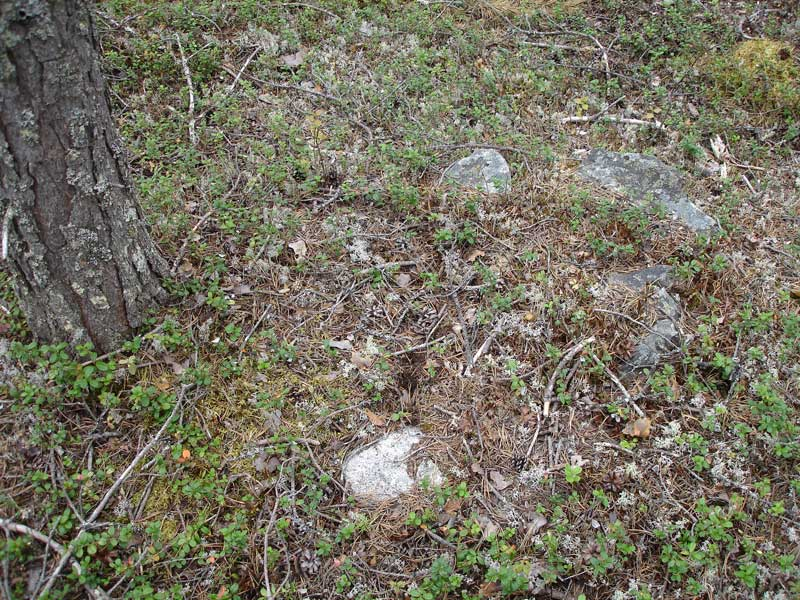 Sami hearth on Älgbäcksheden, Lycksele municipality, Lapland, northern Sweden.